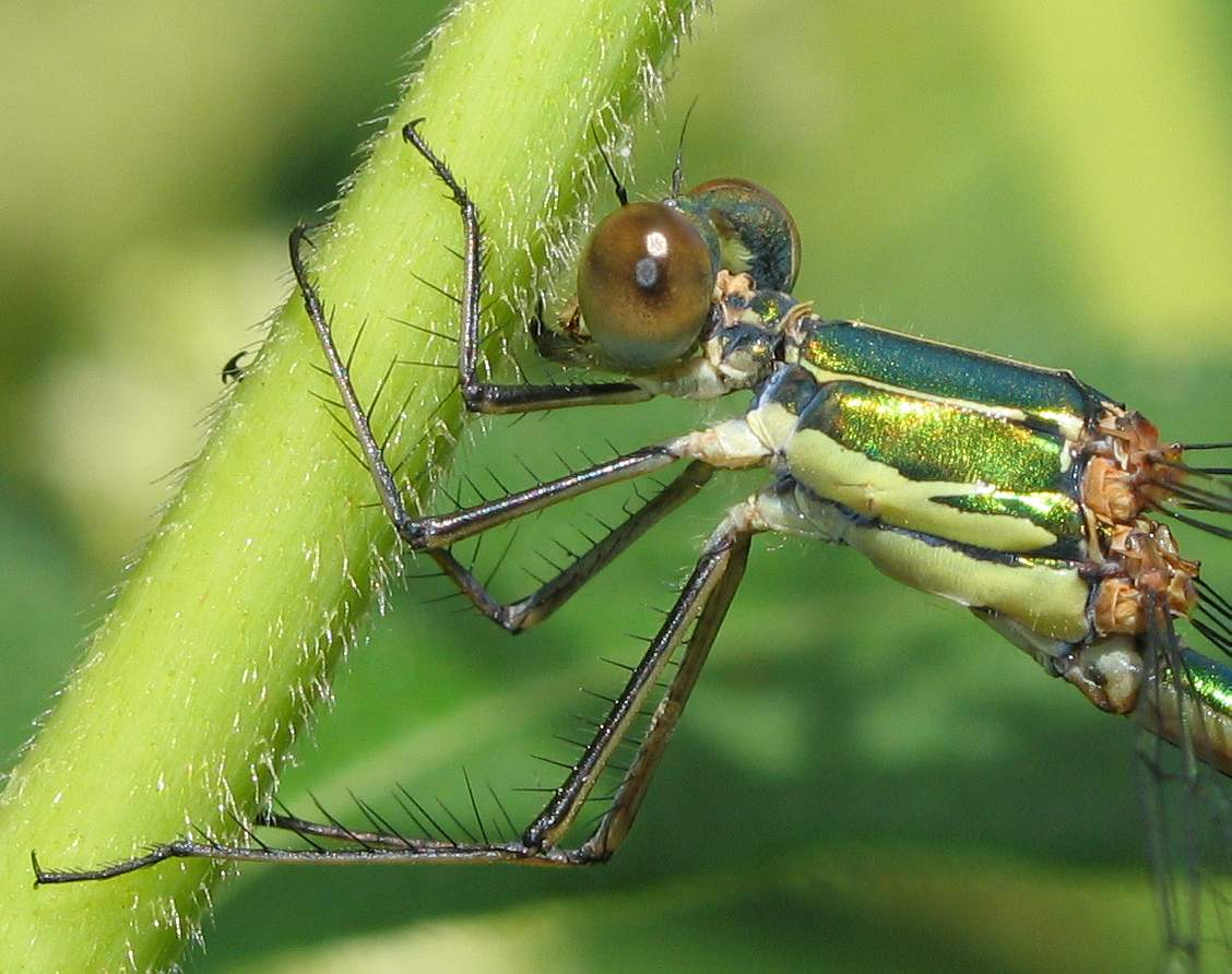 Author: soebe Date: July 21, 2005 Location: Hamburg, Northern Germany